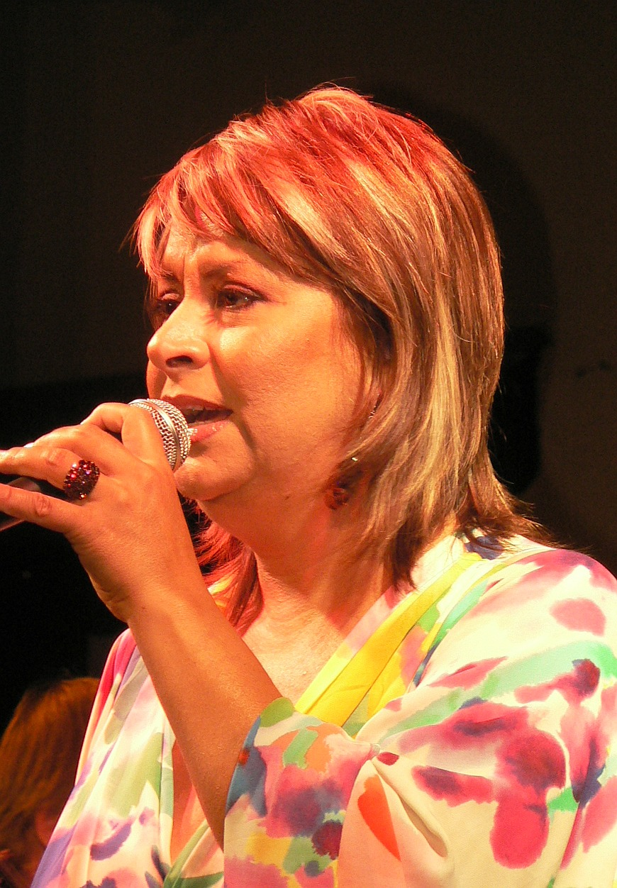 Szulák Andrea 2012 (tükrözött fotó)